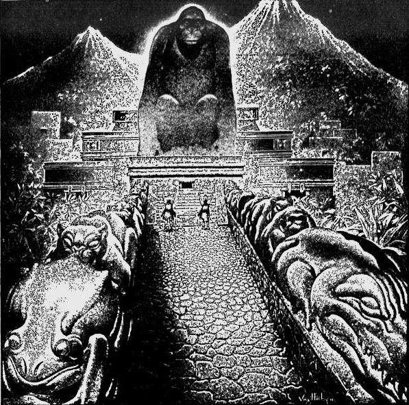 Artist Virgil Finlay's conceptional drawing of Theodore Moore's "Lost City of the Monkey God". Originally published in The American Weekly, September 22, 1940